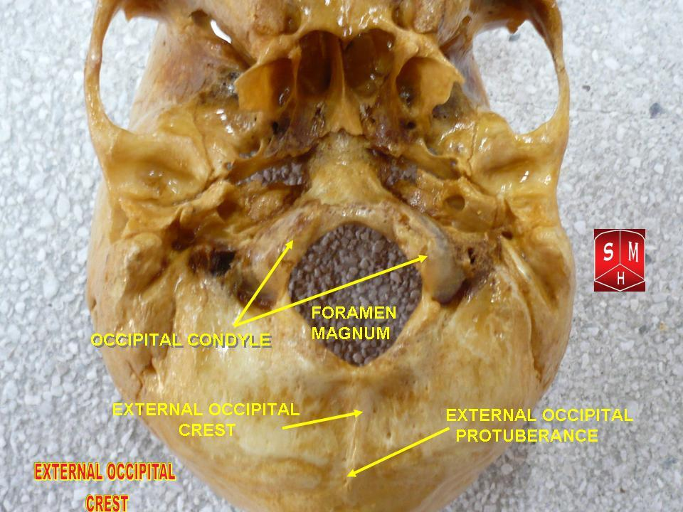 Anatomical preparation